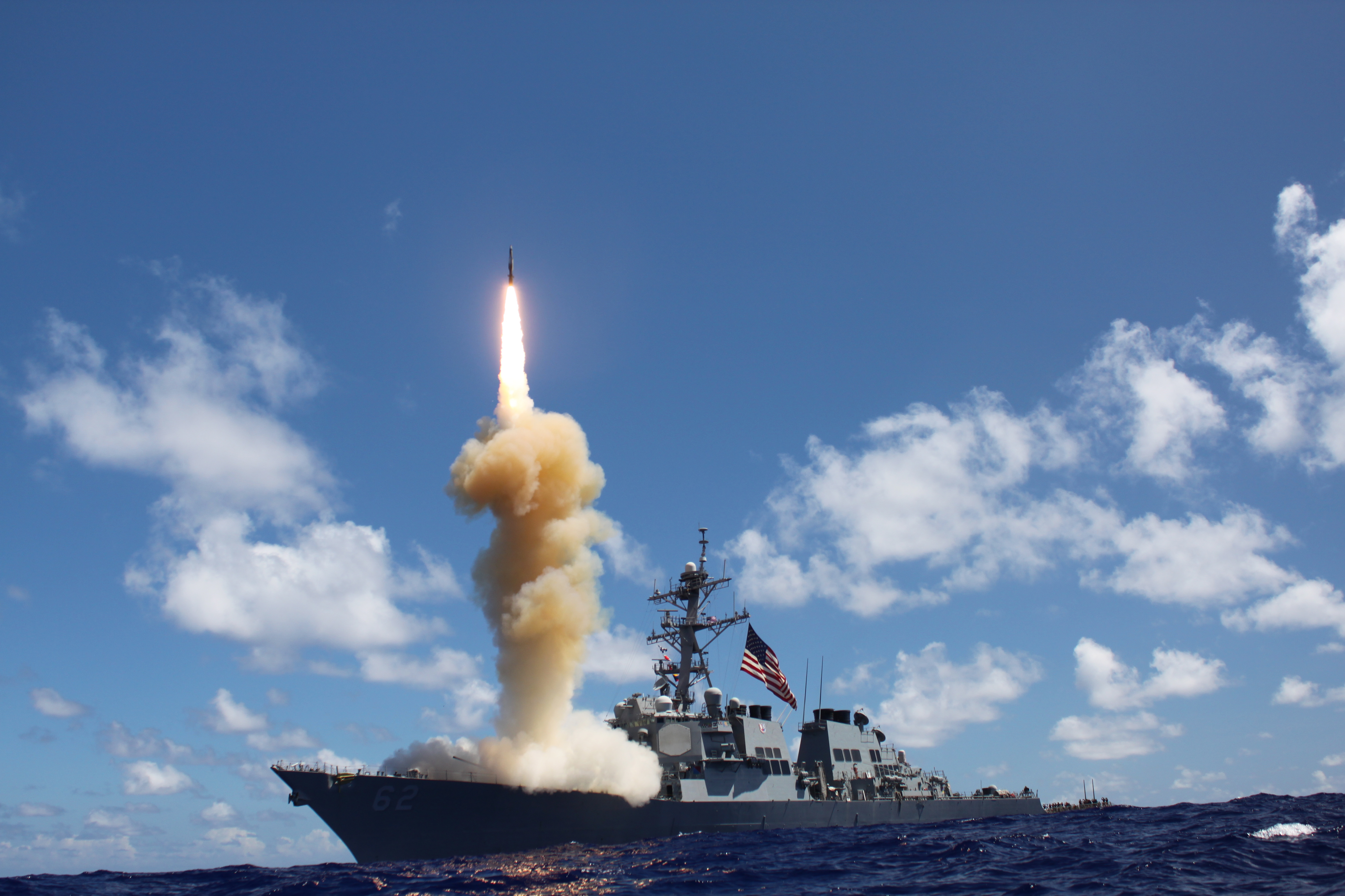 The guided-missile destroyer USS Fitzgerald (DDG 62) launches a Standard Missile-3 as part of a joint ballistic missile defense exercise in the Pacific Ocean on Oct. 25, 2012.